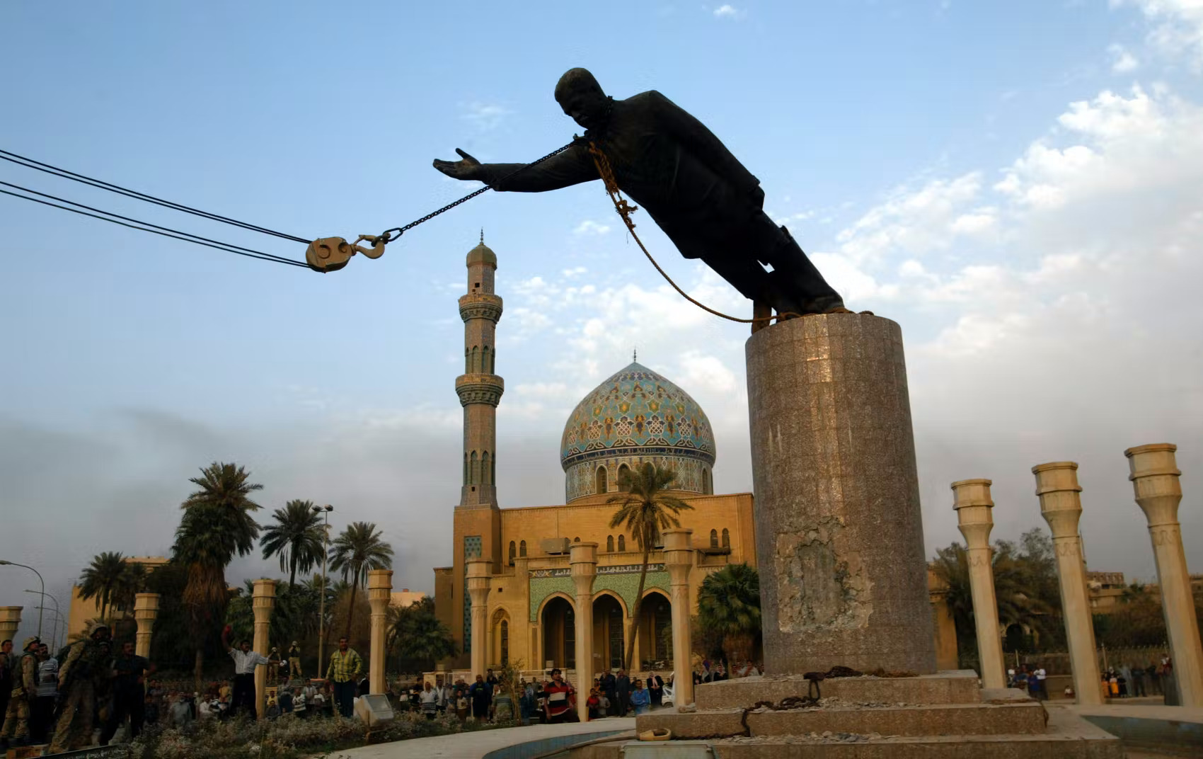 Statue of Saddam Hussein being toppled in Firdos Square after the US invasion of Iraq. Found on the US military website. CAPTION:The statue of Saddam Hussein topples in Baghdad's Firdos Square on April 9, 2003. Three years later, Iraqi forces increasingly are taking the lead in securing their country.